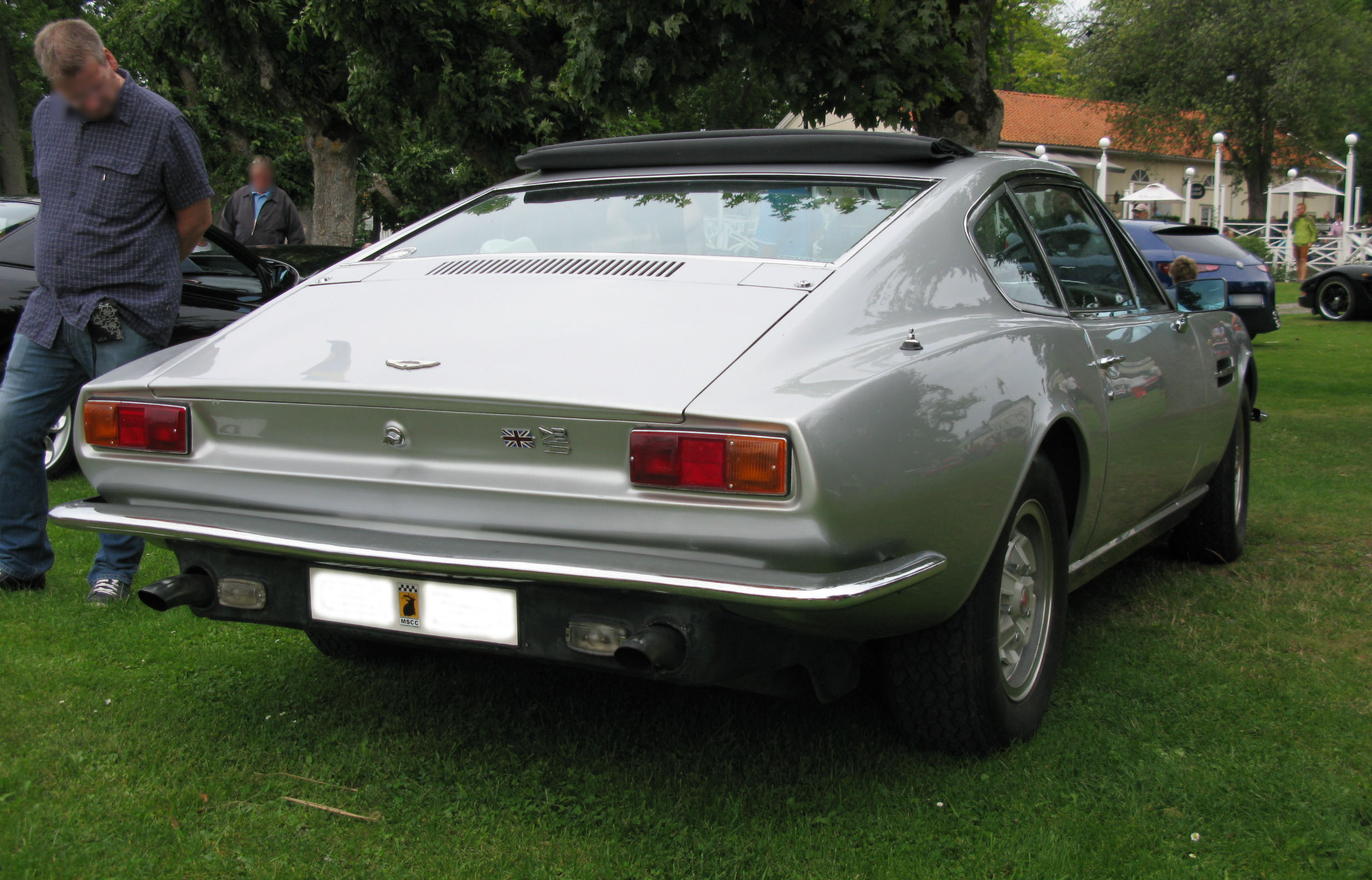 Rear view of 1970 Aston Martin DBS V8.